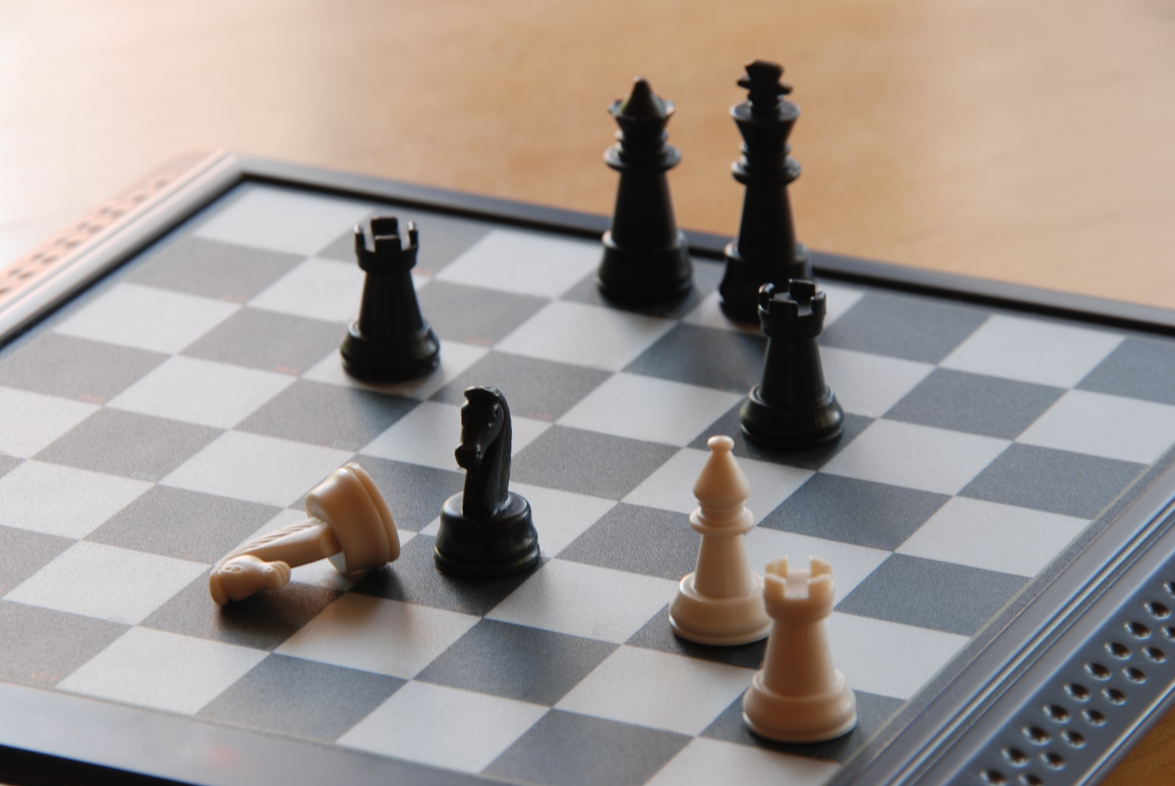 Photo of a chess board